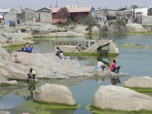 Lusaka, Missisi slums.